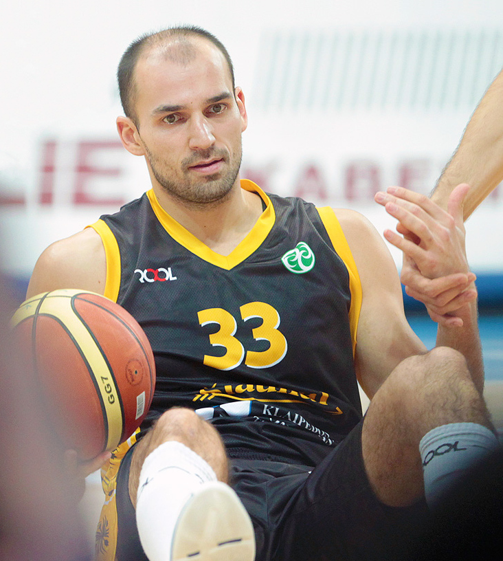 Basketball player Rolandas Alijevas